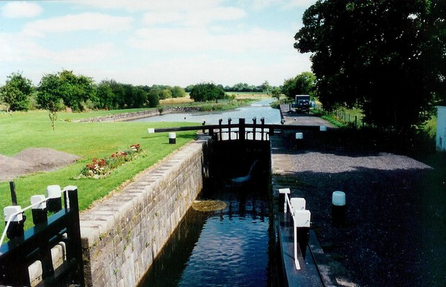 Coolnahay Lock and Harbour, Co. Westmeath Construction of the Royal Canal was completed to the 26th lock at Coolnahay in 1809 where it stalled until 1813, after which it was completed westwards to the Shannon using public funds. The lock and harbour were restored in the early 1990s.